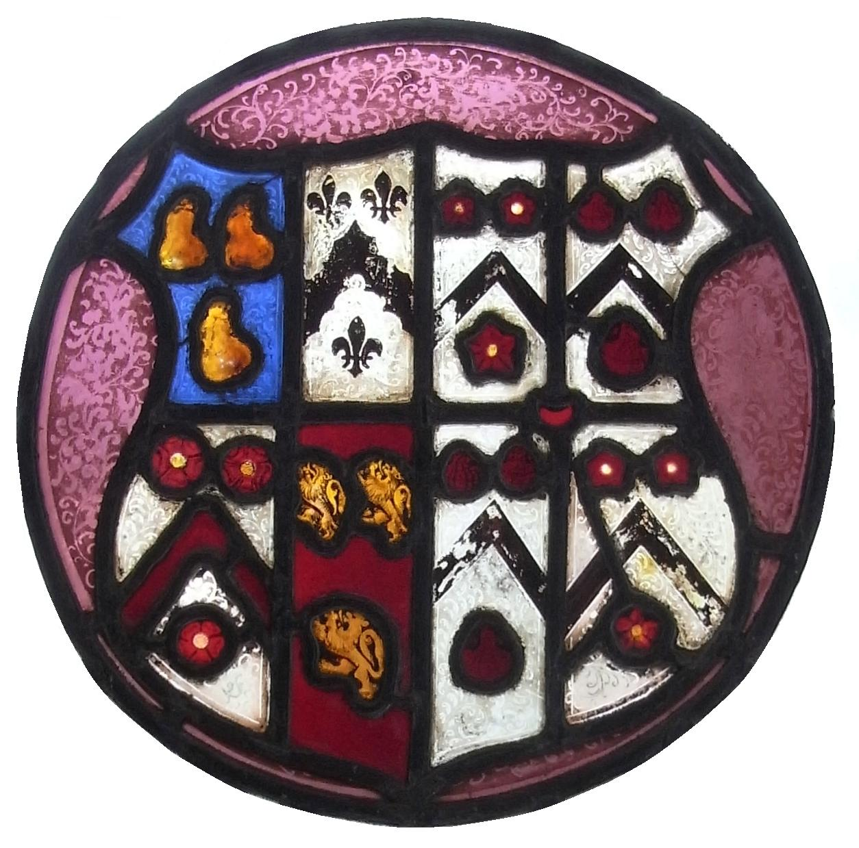 Heraldic stained glass panel in King's Nympton Church, Devon, showing arms of Hugh Stucley (d.1559) impaling arms of Sir Lewis Pollard of King's Nympton, father of his wife Jane (or Phillipa) Pollard. South window of south aisle Pollard Chapel. The arms are as follows: baron, quarterly: 1st Azure, three pears pendant or (Stucley); 2nd Argent, a chevron engrailed between three fleurs-de-lis sable (de Affeton); 3rd Argent, a chevron gules between three roses of the second seeded or (Manningford?, heiress of de Affeton); 4th Gules, three lions rampant or (FitzRoger of Chewton Mendip, Somerset). Femme quarterly 1st & 4th Argent, a chevron sable between three mullets gules pierced or (de Via/Way of Way, St Giles in the Wood); 2nd & 3rd Argent, a chevron sable between three escallops gules (Pollard), over-all a crescent as difference of a second son